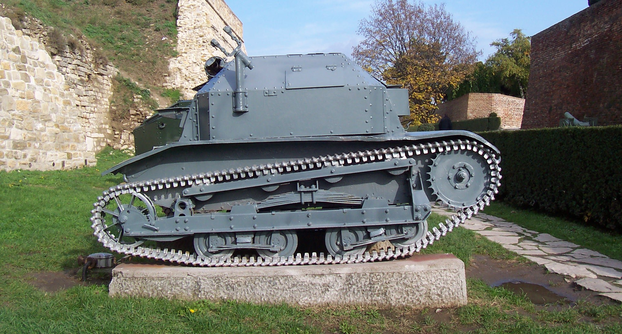 TK-3 tankette - right side view. Taken at the Belgrade Military Museum.